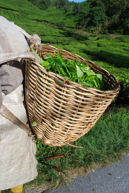 A basket full of green tea harvested from BOH's Plantation at Sg. Palas, Cameron Highlands.